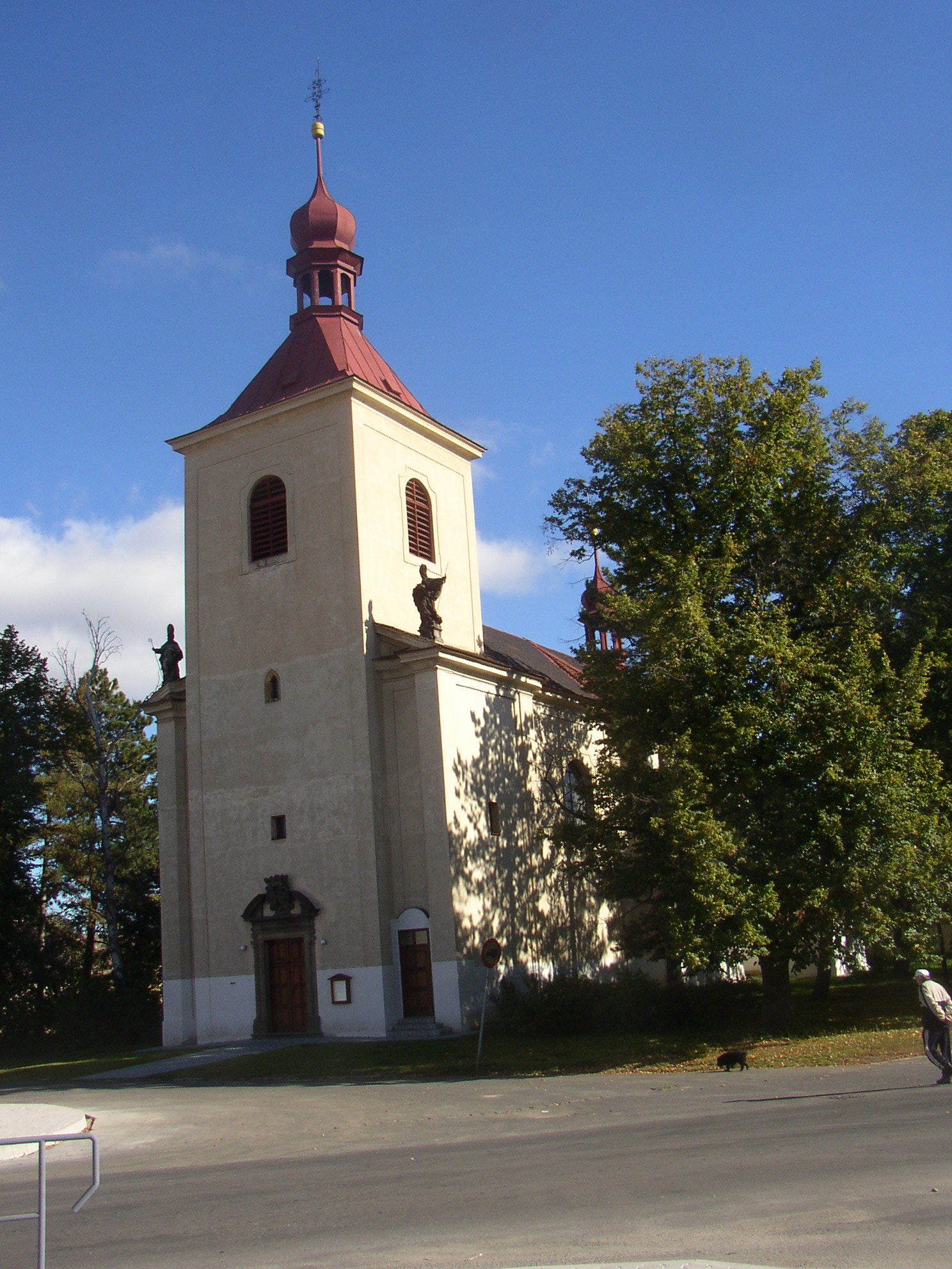 Bohušovice nad Ohří, Litoměřice District, Czech Republic. SS Procopius and Nicholas church in northern side of Hus Square.